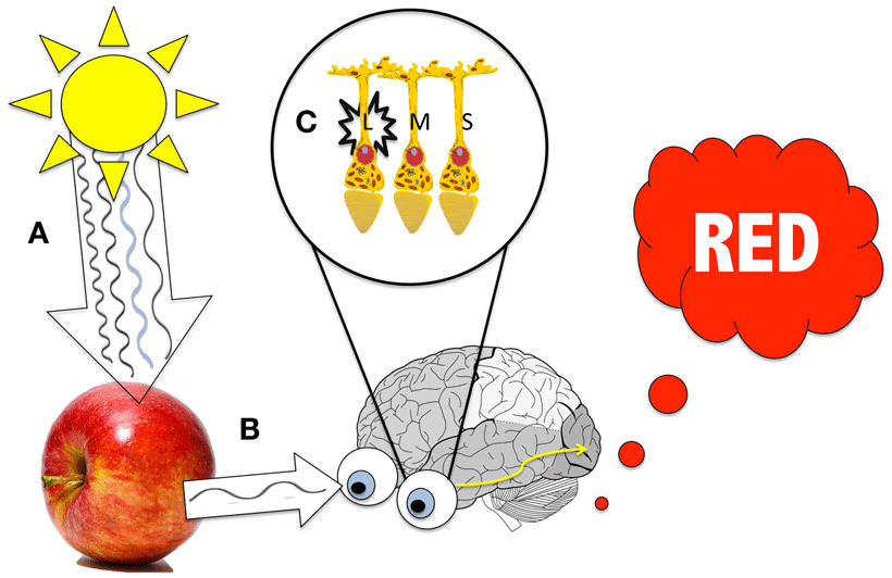 Seeing red. A. Light from the sun hits the apple. Some wavelengths are blocked by the chemicals in the apple’s skin. B. Reflected wavelengths pass through the pupil and excite the cone cells at the back of the eye. C. The cones send a coded message to the brain about the wavelengths entering the eye. In this example, the L-cones are very excited, the M-cones are a little bit excited and the S cones are hardly excited at all. The brain translates this code into a sensation of “red”.